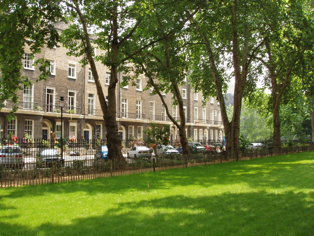 Woburn Square The gardens here have been renovated recently so the lawn is temporarily fenced off. The buildings on the left were built in 1828, narrower and less grand than houses in adjacent Gordon Square. The other side of the square has modern university buildings including the Warburg Institute. The bottom end of the original Woburn Square was built over by the university. The garden was participating in Open Garden Squares Weekend.